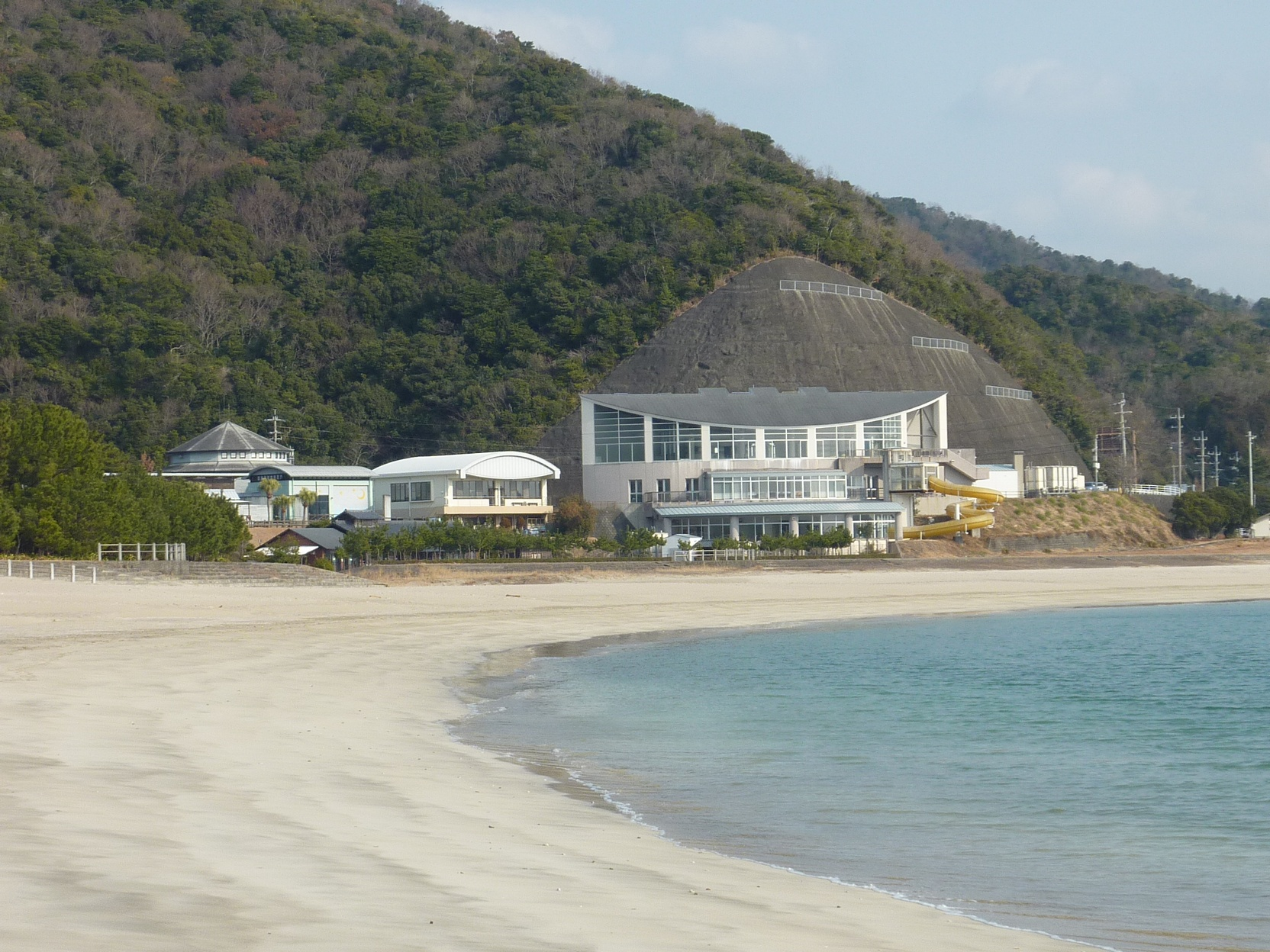 Michinoeki Kitaura (Kitaura, Nobeoka City, Miyazaki, Japan)